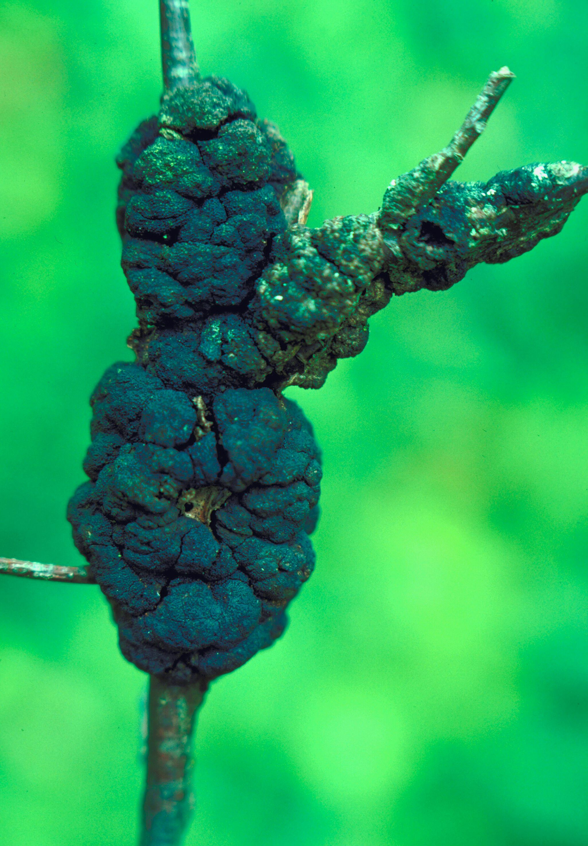 Black Knot disease on Cherry, caused by Apiosporina morbosa